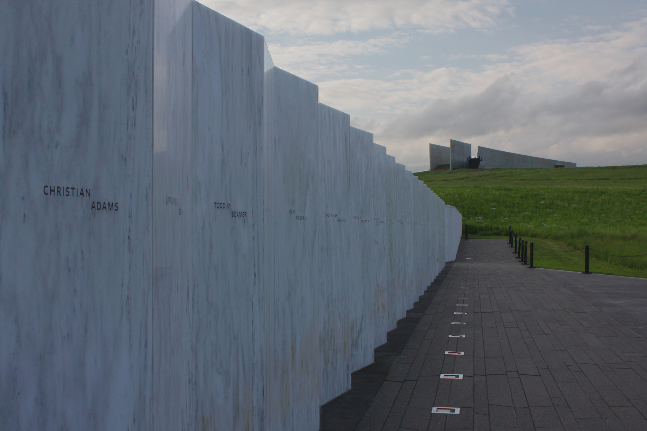 Flight 93 National Memorial, Stonycreek Township, Pennsylvania, USA, memorial wall of names with visitor center in background